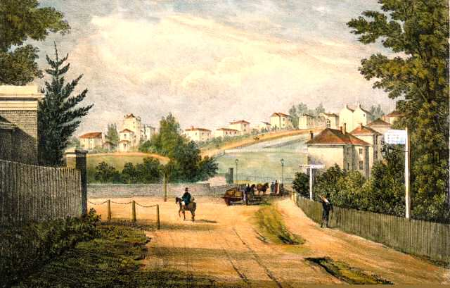 Published by D.Walther, 1823. Painter unknown.